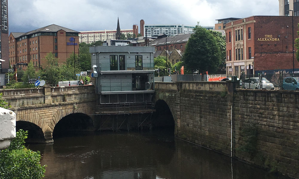 Confluence